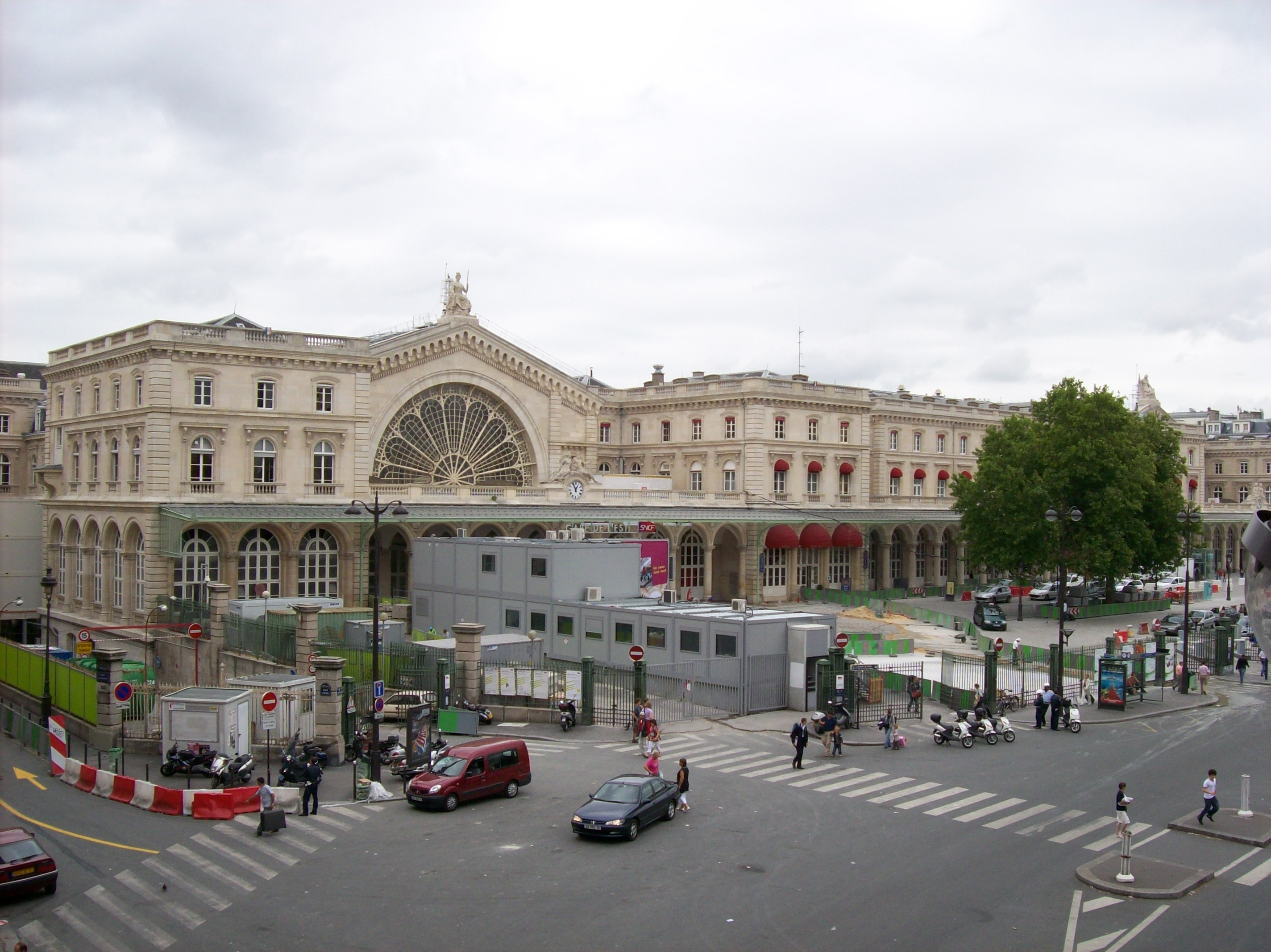 Front of Gare de l'est - Paris, France.